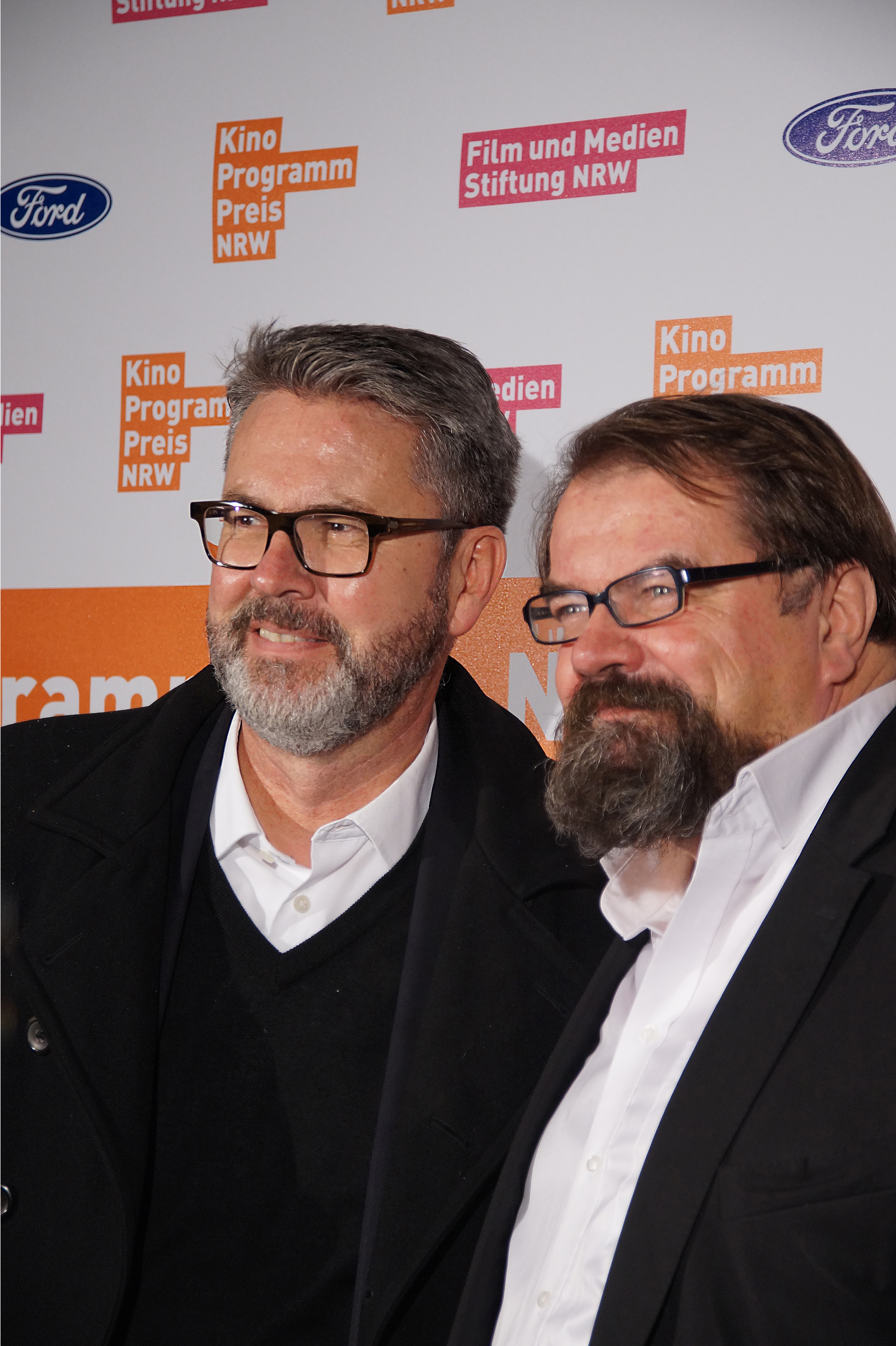 Ulrich Höcherl (BlickpunktFilm) und Alfred Holighaus (SPIO) beim NRW Kinoprogrammpreis, November 2016, Köln.